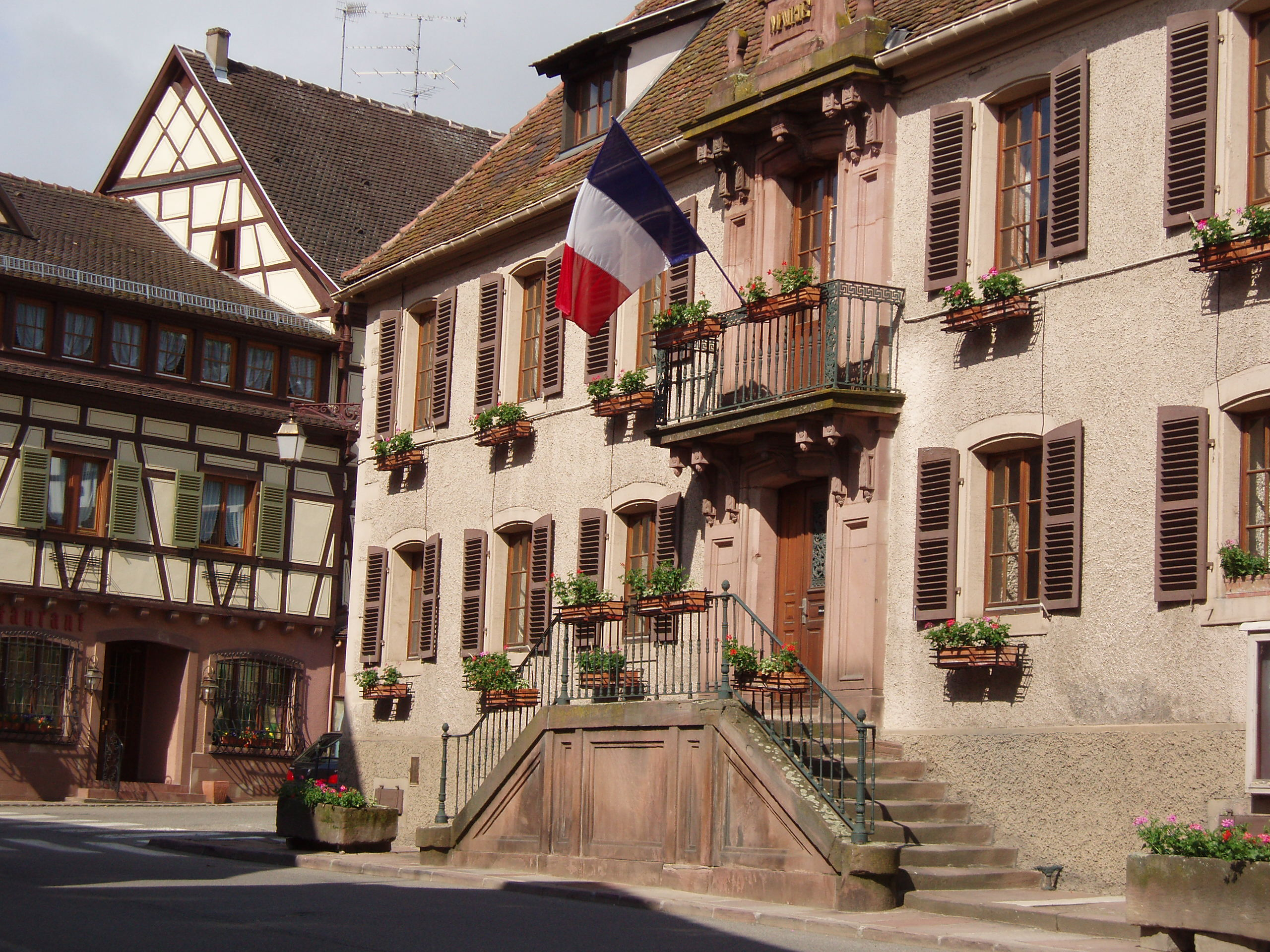 impressions of Saint-Hippolyte (Haut-Rhin), Alsace, France